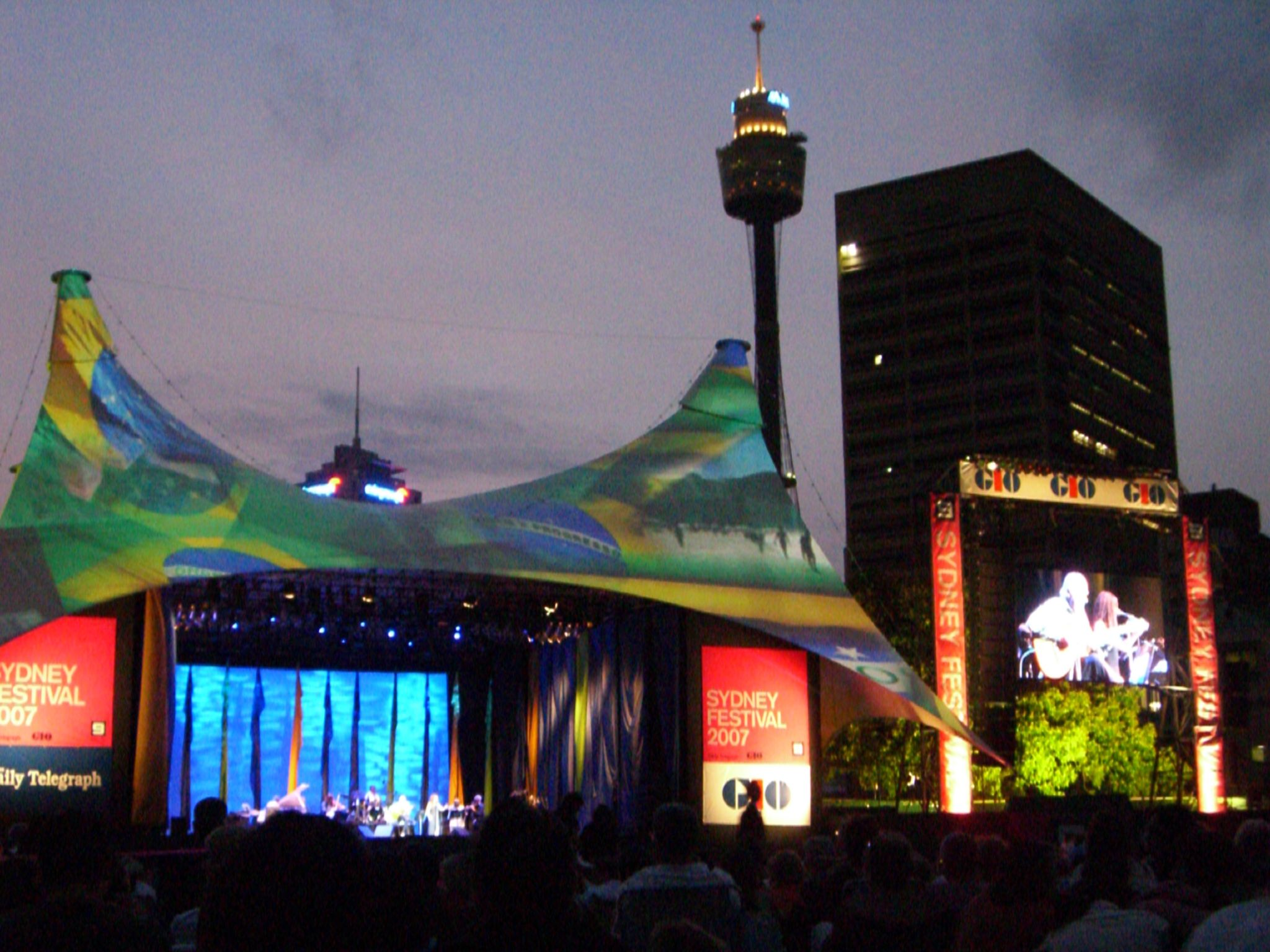 Jazz in the Domain. Damn, Sydney is awesome.